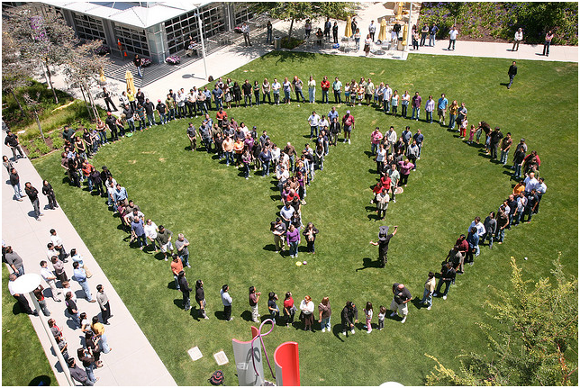 Photo of Yahoo! employees making the company logo, Y!